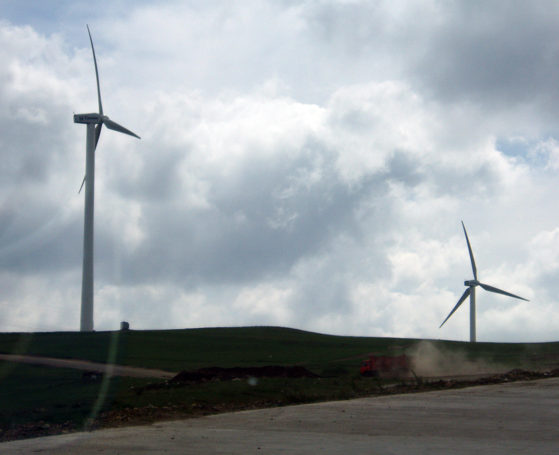 The wind power mills on Inner Mongolian grassland